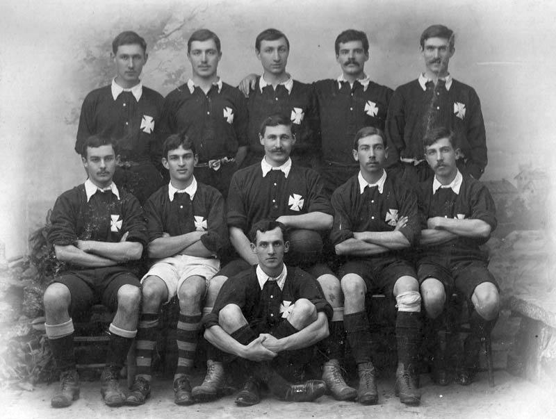 Squad of Smyrna football team that competed in 1906 Intercalated Games.